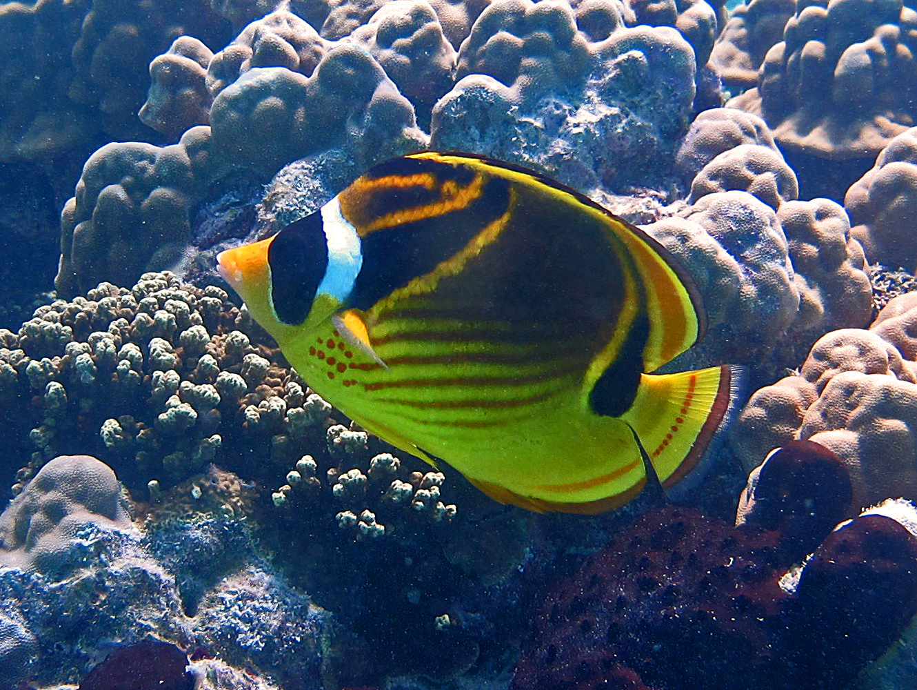 Chaetodon lunula from French Polynesia